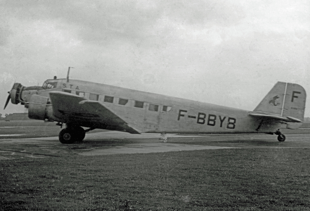 Amiot AAC.1 Toucan (Junkers Ju.52/3m) of STA at Manchester (Ringway) Airport in 1948